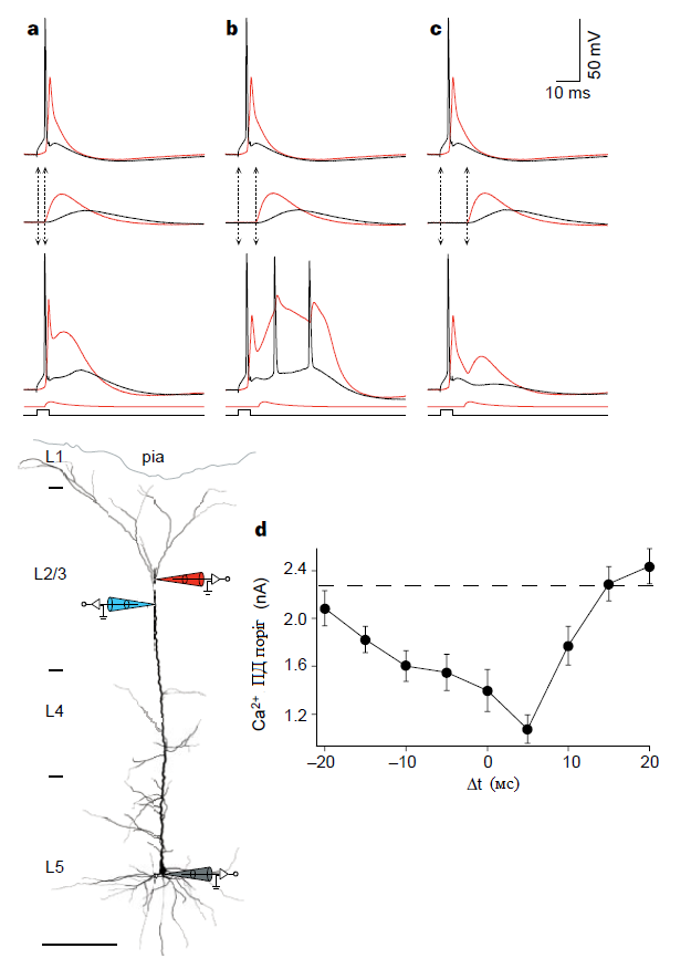 Pairing of a distal EPSP with axonal AP and BAC firing. Adapted from "A new cellular mechanism for coupling inputs arriving at different cortical layers"